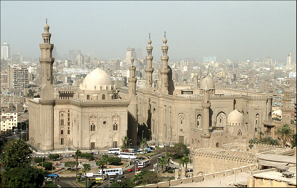 Cairo-Sultan Hassan mosque (left) and ar-Rifai mosque (right)